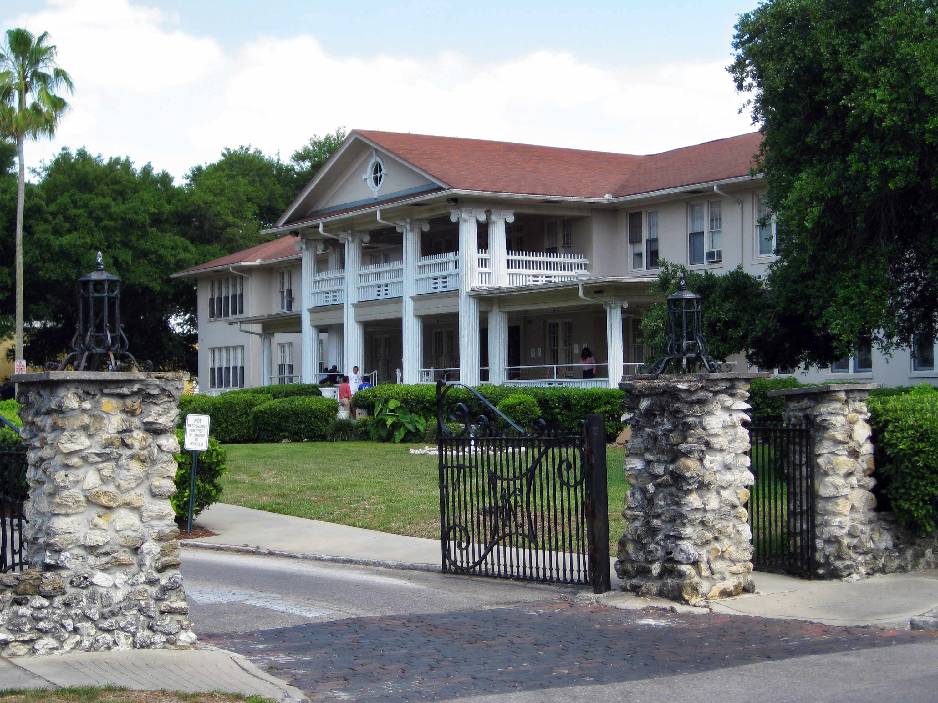 The iron front gate and columned portico of the Old People's Home in Tampa, Florida, a historic nursing care facility built in 1924 and currently operated as the Home Association, Inc.